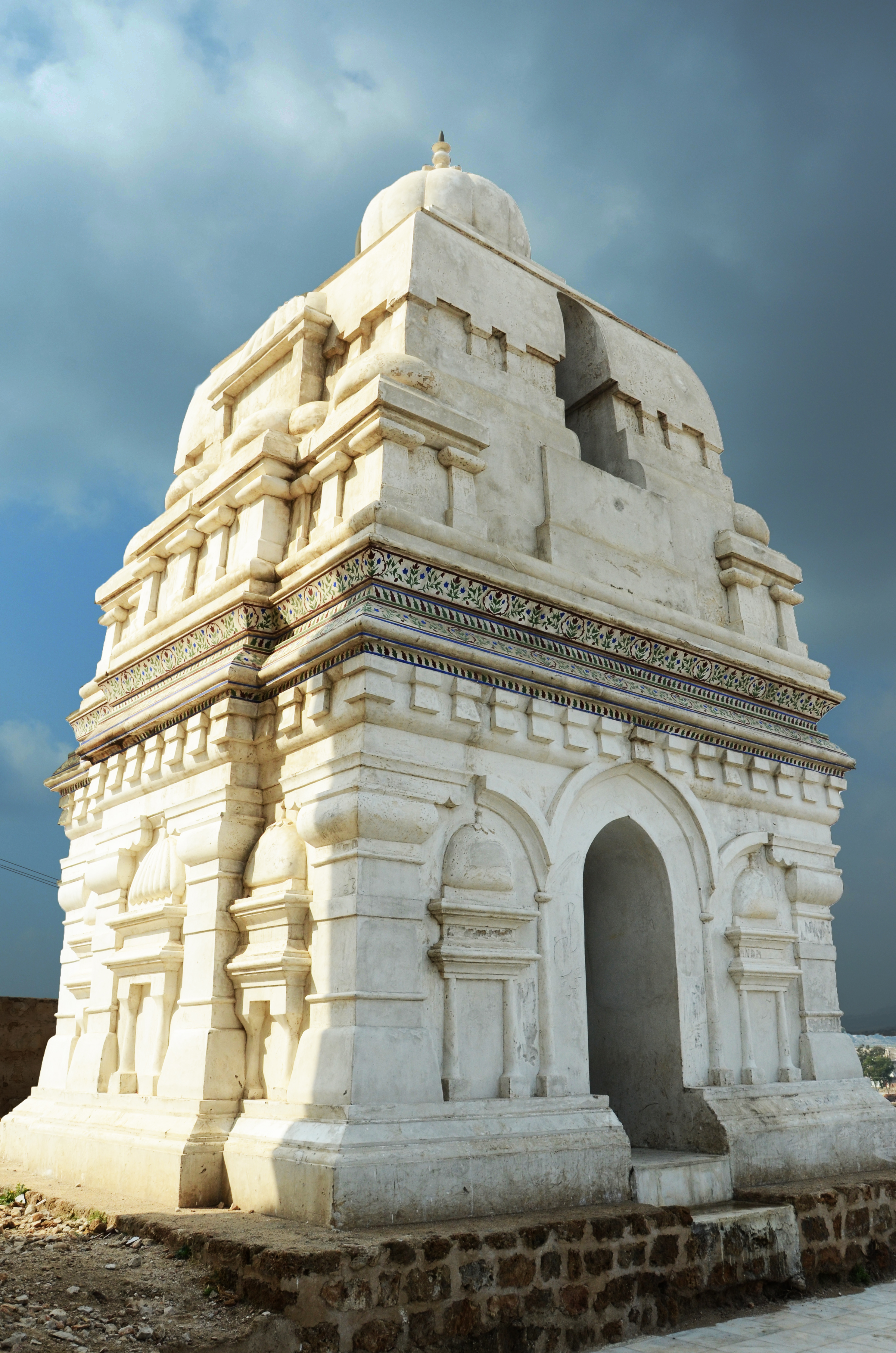 Ruined Buddhist Stupa and area around it This is a photo of a monument in Pakistan identified as the PB-37